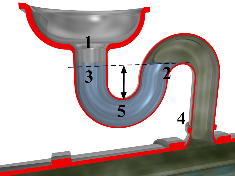 3D computer graphics showhing a cut-away overview of siphon lock